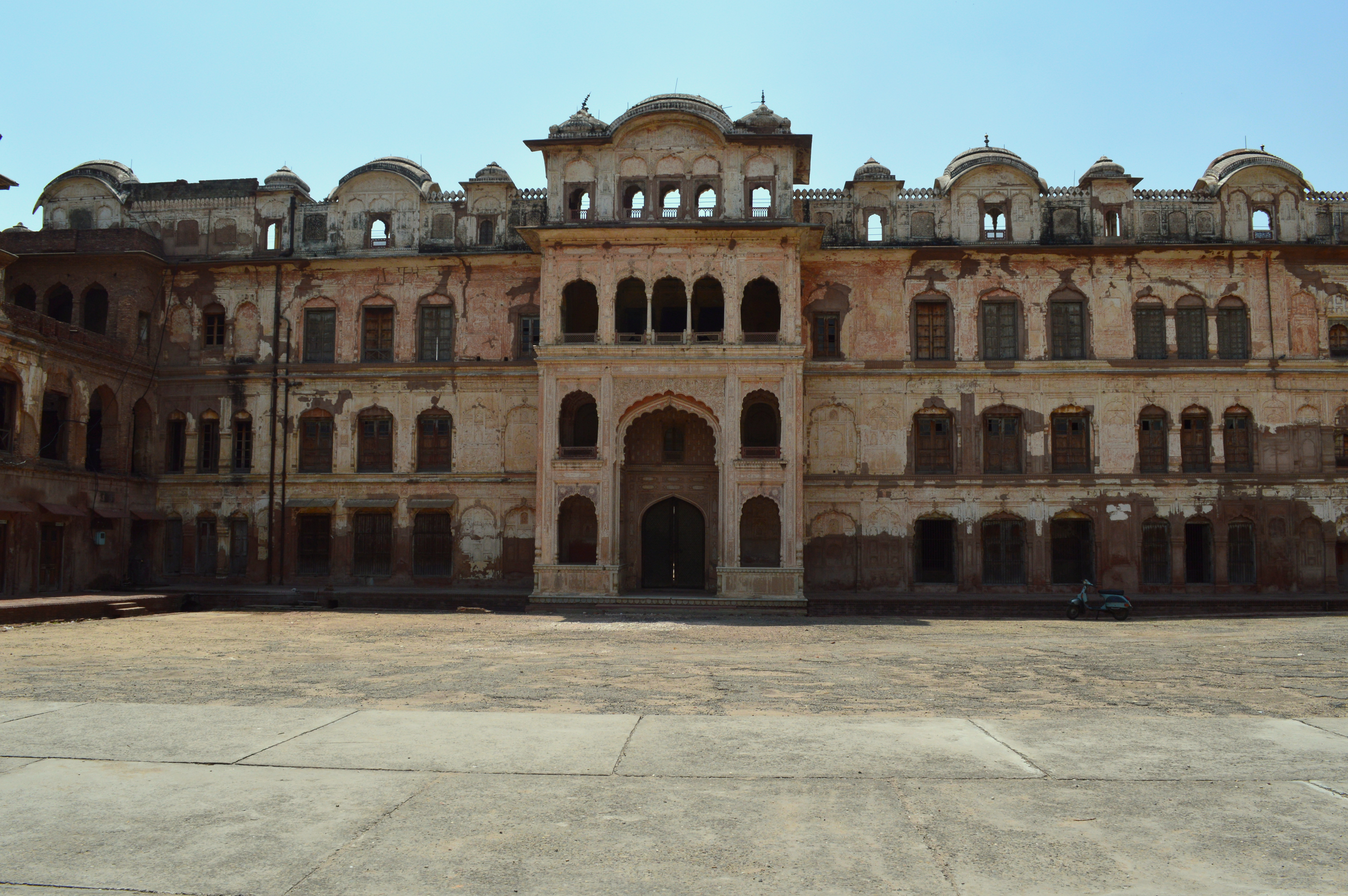 QILLA MUBARAK ,PATIALA